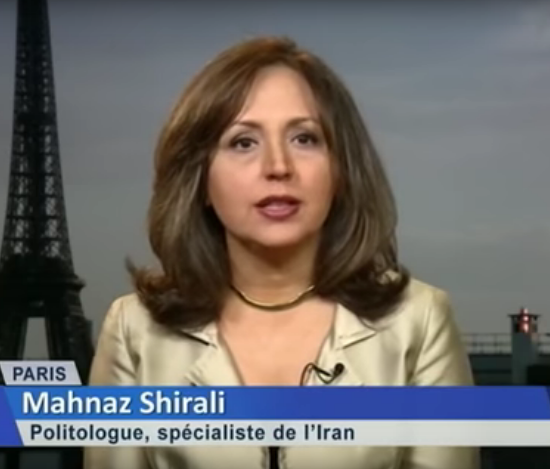 Mahnaz Shirali on VOA Washington Forum program on 11 mai 2018 about "Nucléaire iranien, pourquoi cette volte-face de Donald Trump?"